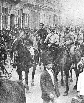 Photograph taken during the Semana Trágica in Argentina, in 1919.